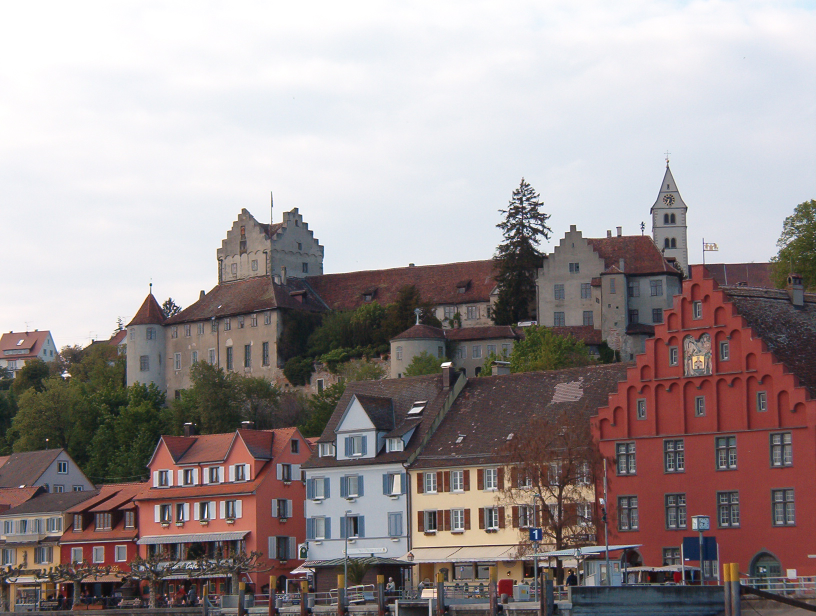 Panorama of Meersburg, Germany.